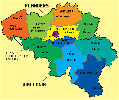 Map of Belgian regions and provinces. From EN Wikipedia, GNU